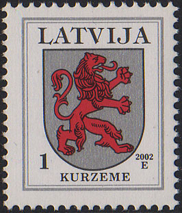 Latvian postage stamp definitive depicting the Kurzeme region coat of arms.